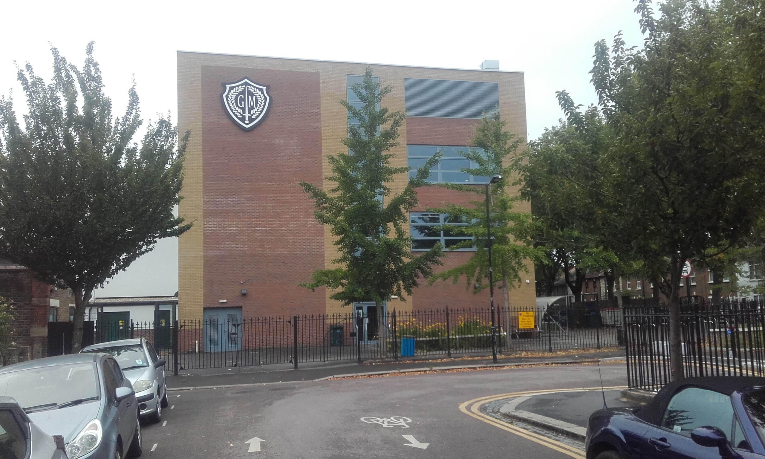 George Mitchell Secondary School in Farmer Road, Leyton, London E10 5DN. The school was completely rebuilt in 2017, replacing the old elementary school buildings that opened in 1903.